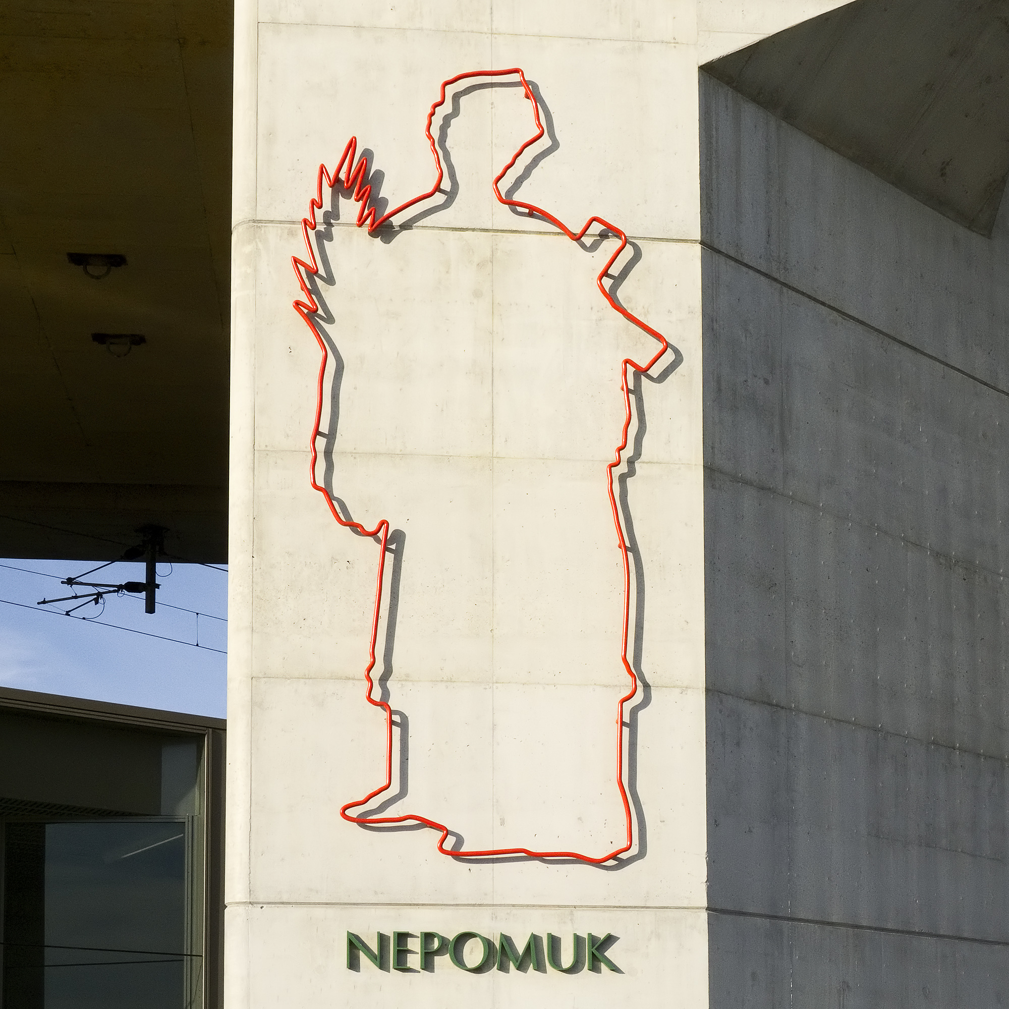 Station Bahnhof Wien Stadlau of underground line U2 and Schnellbahn